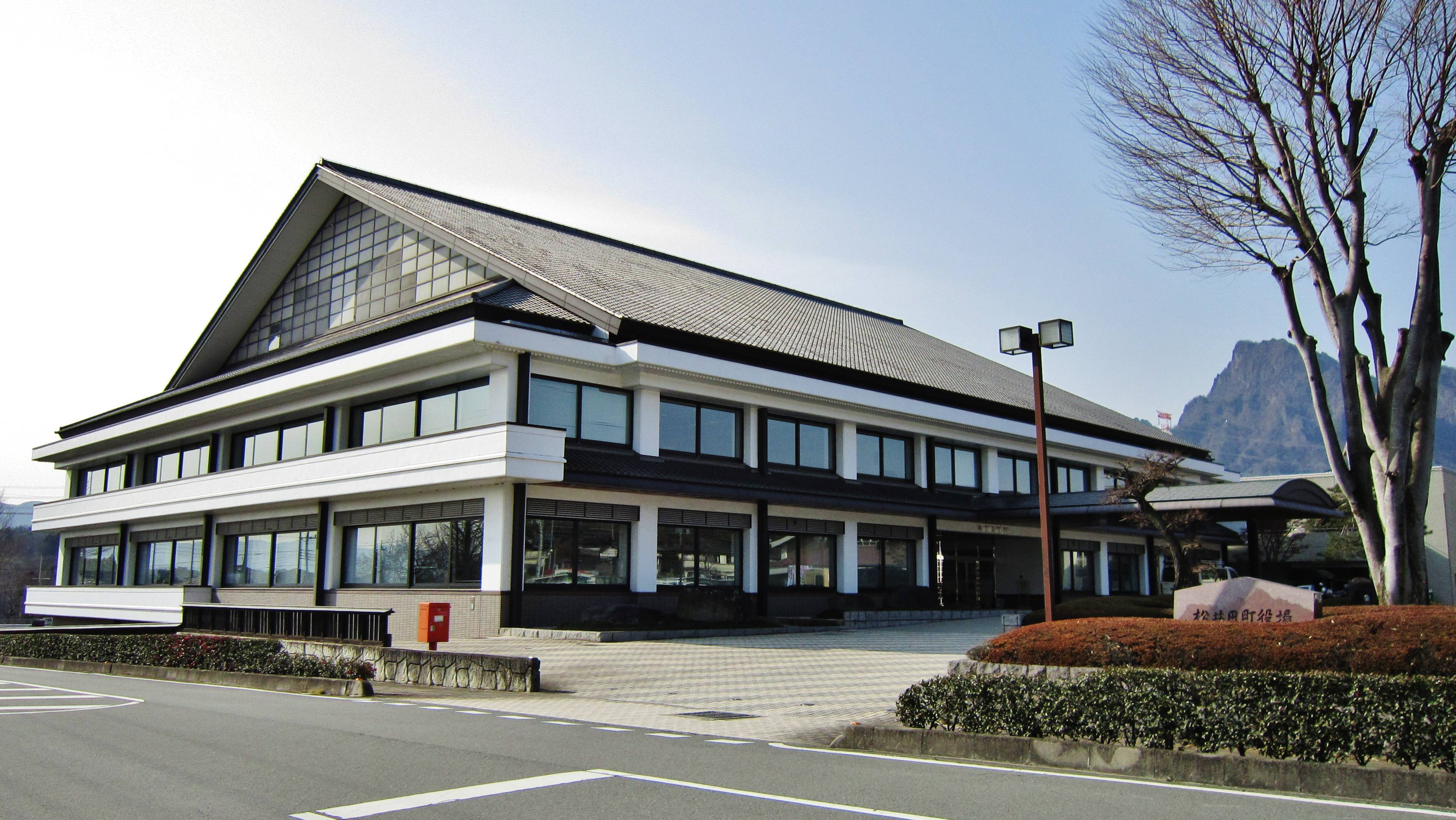 Annaka city Matsuida branch office.